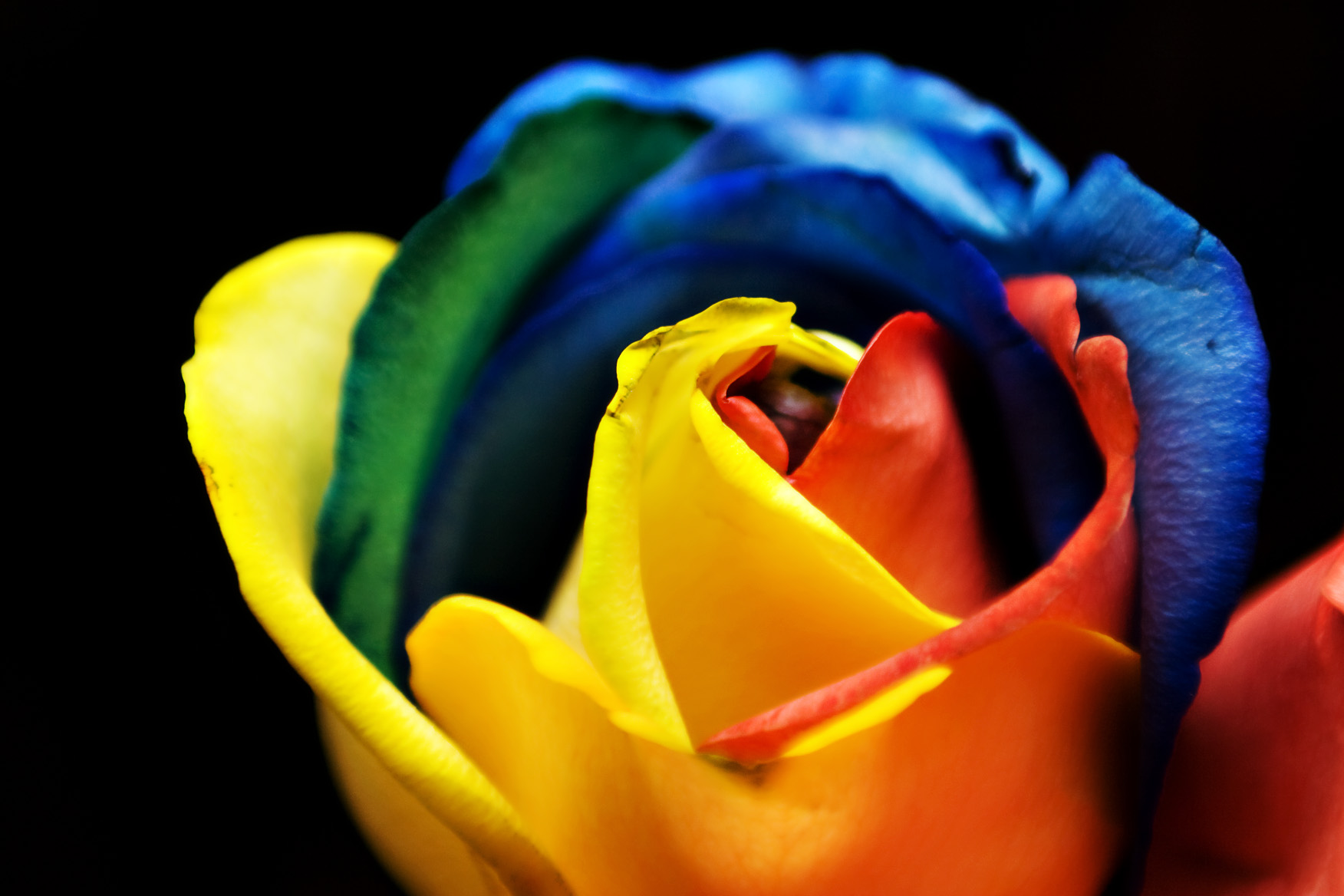 My daughter and I found this while shopping yesterday. The only rose I have ever purchased and it is so cool!